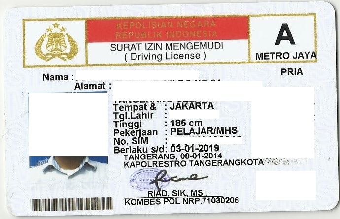 Kartu Surat Izin Mengemudi (SIM) golongan "A" untuk mengendarai mobil biasa seperti: Jeep, Sedan, Minibus, dll.